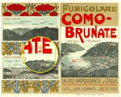 Como-Brunate funicolar - 1899 leaflet